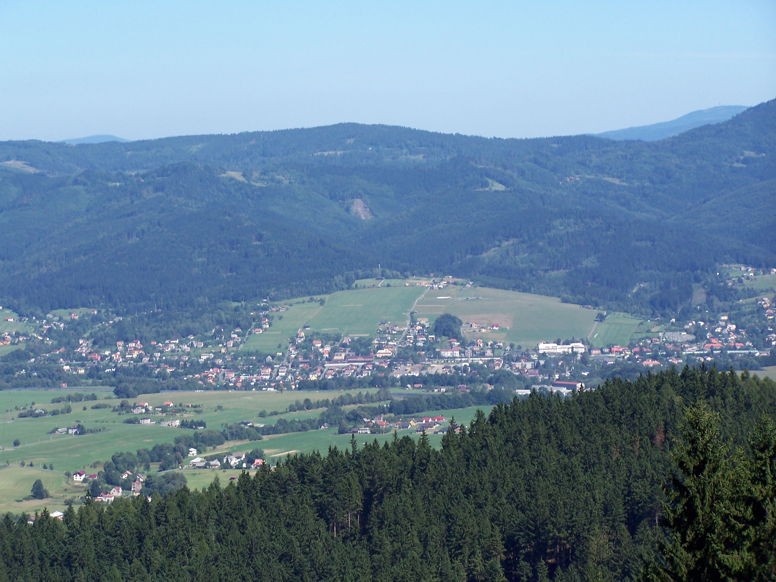 The village of Návsí (Nawsie) seen from Malá Kykula (Mała Kikula), Czech Republic